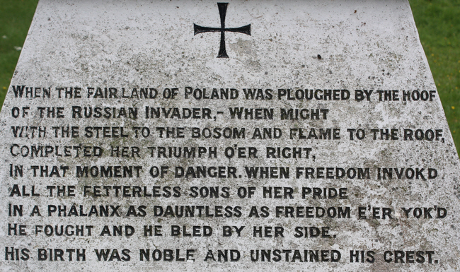 Poem on the grave of Major Baron Charles Jancewicz